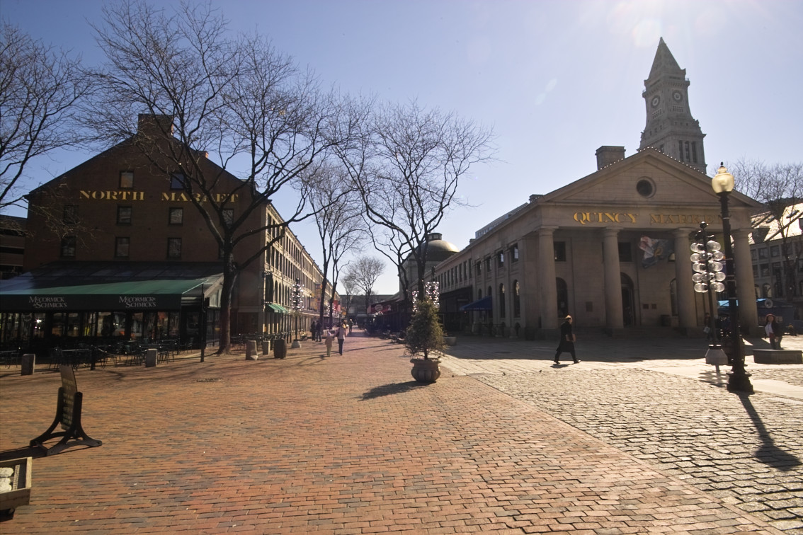 Picture of both North Market and Quincy Market in Boston, Massachusetts, USA